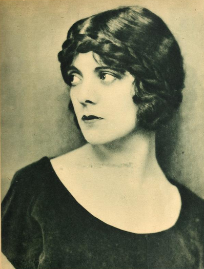 Alma Rubens, from a 1923 publication. Photo by Nickolas Muray.